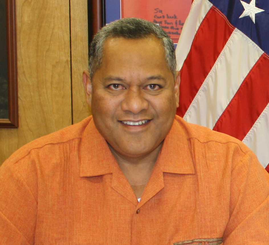 Lemanu Peleti Mauga, Lieutenant Governor of American Samoa, in 2014.